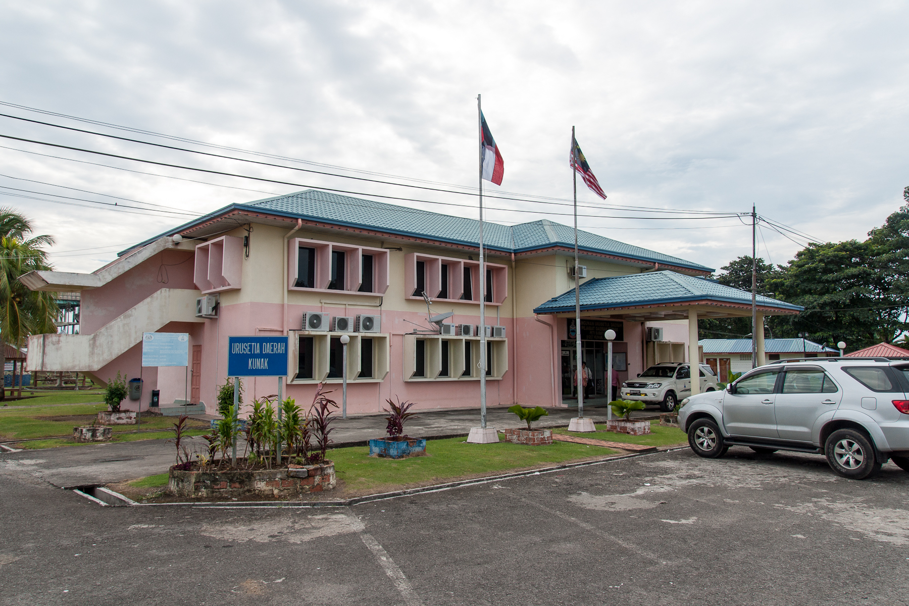 Kunak, Sabah: Kunak District Office (Pejabat Daerah Kunak)